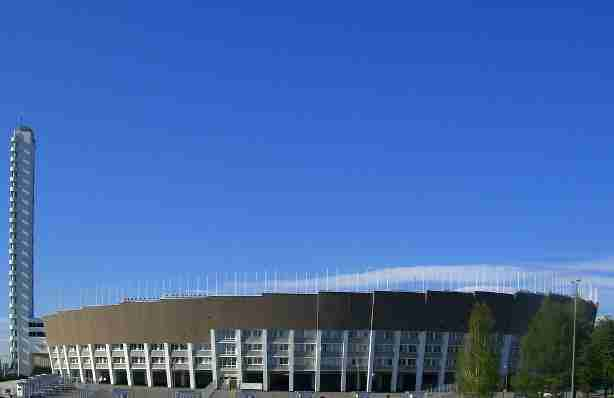 Helsinki Olympic Stadium in Helsinki, Finland